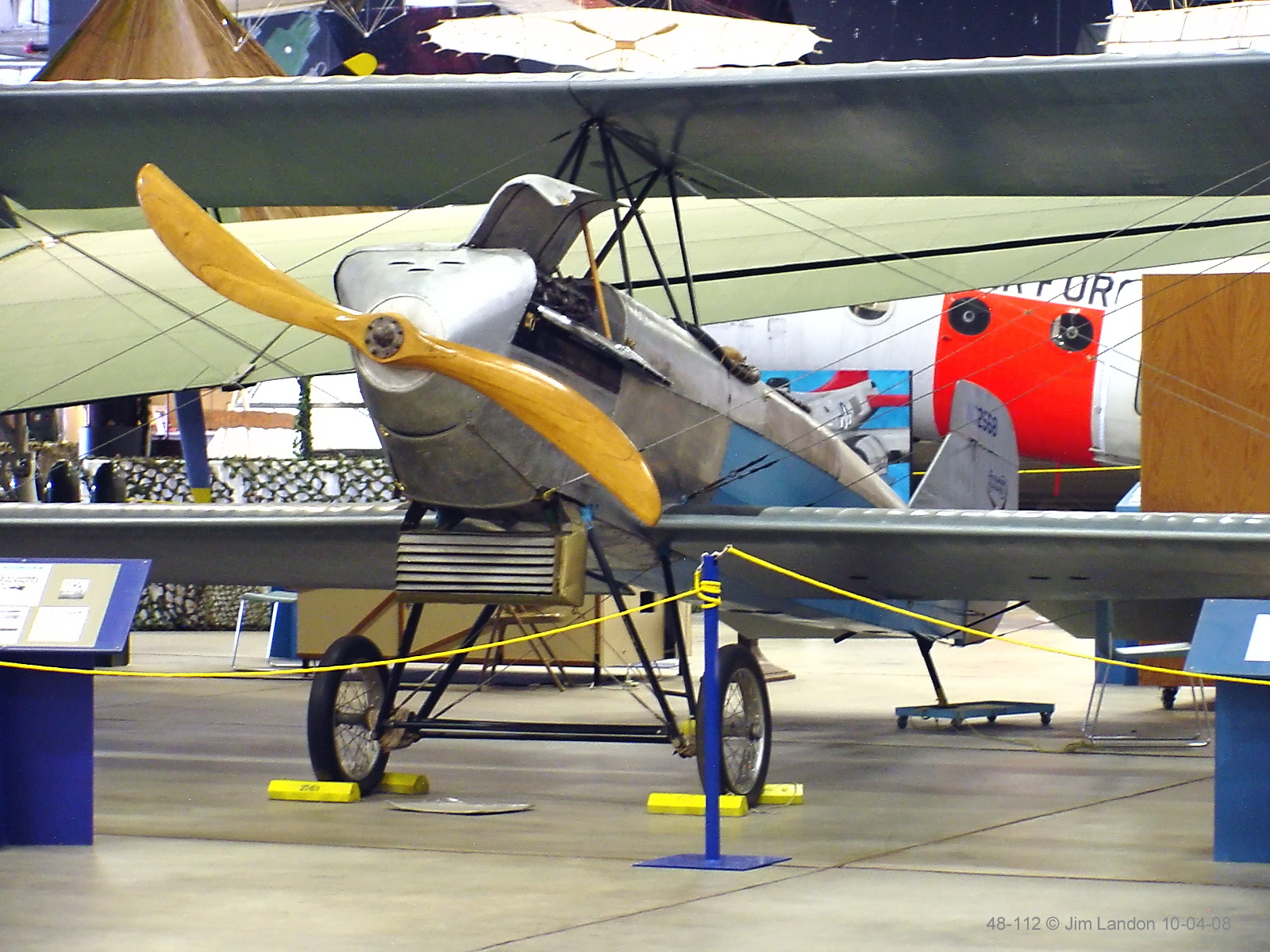 1926_Alexander_Eaglerock_NC2568 (Moved from Wings Over the Rockies Air and Space Museum, Denver, CO, to Pueblo Weisbrod Aircraft Museum, Pueblo, CO on 20 Sep 2013 and reassembled 15 Oct 2013, LanceBarber (talk) 17:01, 18 May 2014 (UTC))